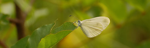 Wood white butterfly - Leptidea sinapis Volovja reber - fauna